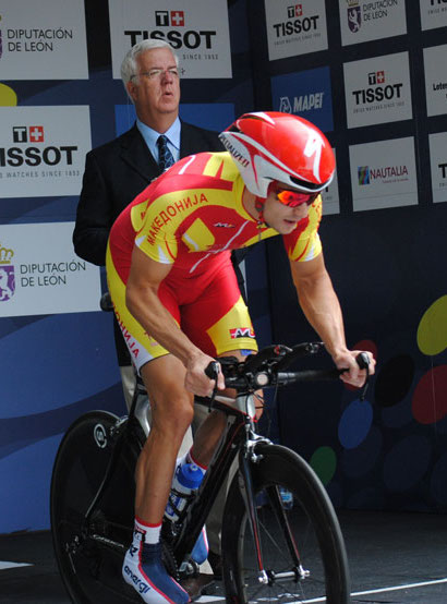 Gorgi starting at Worlds in Ponferrada.